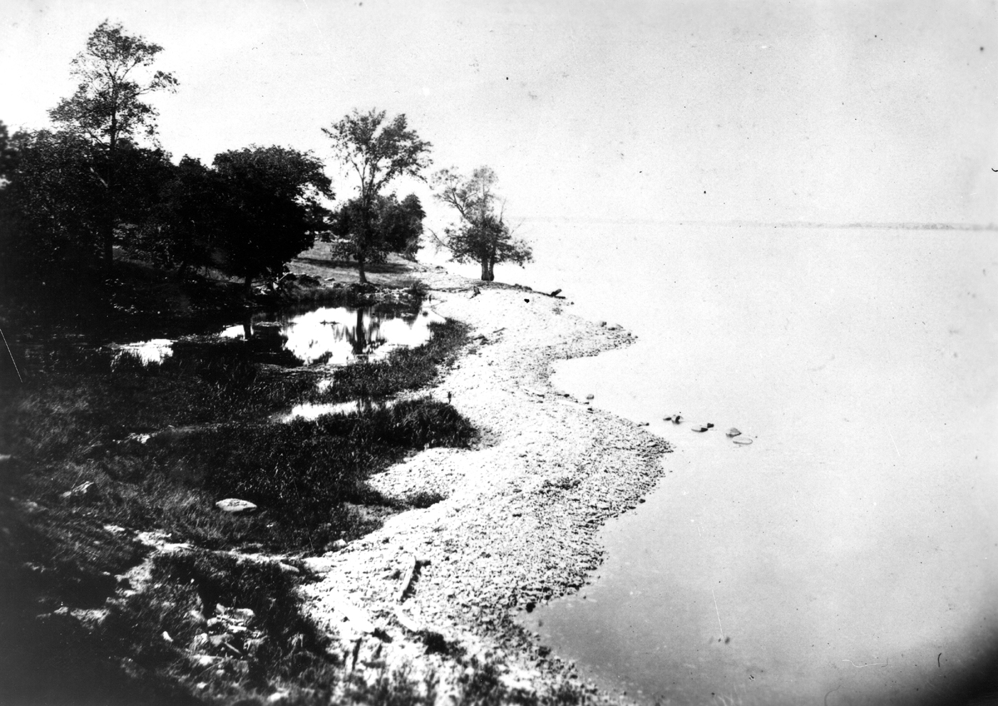 Lake Ontario. Beach ridge and lagoon on the east shore. 1895. Digital File:ggk00923 ID. Gilbert, G.K. 923 Original found at: [1]